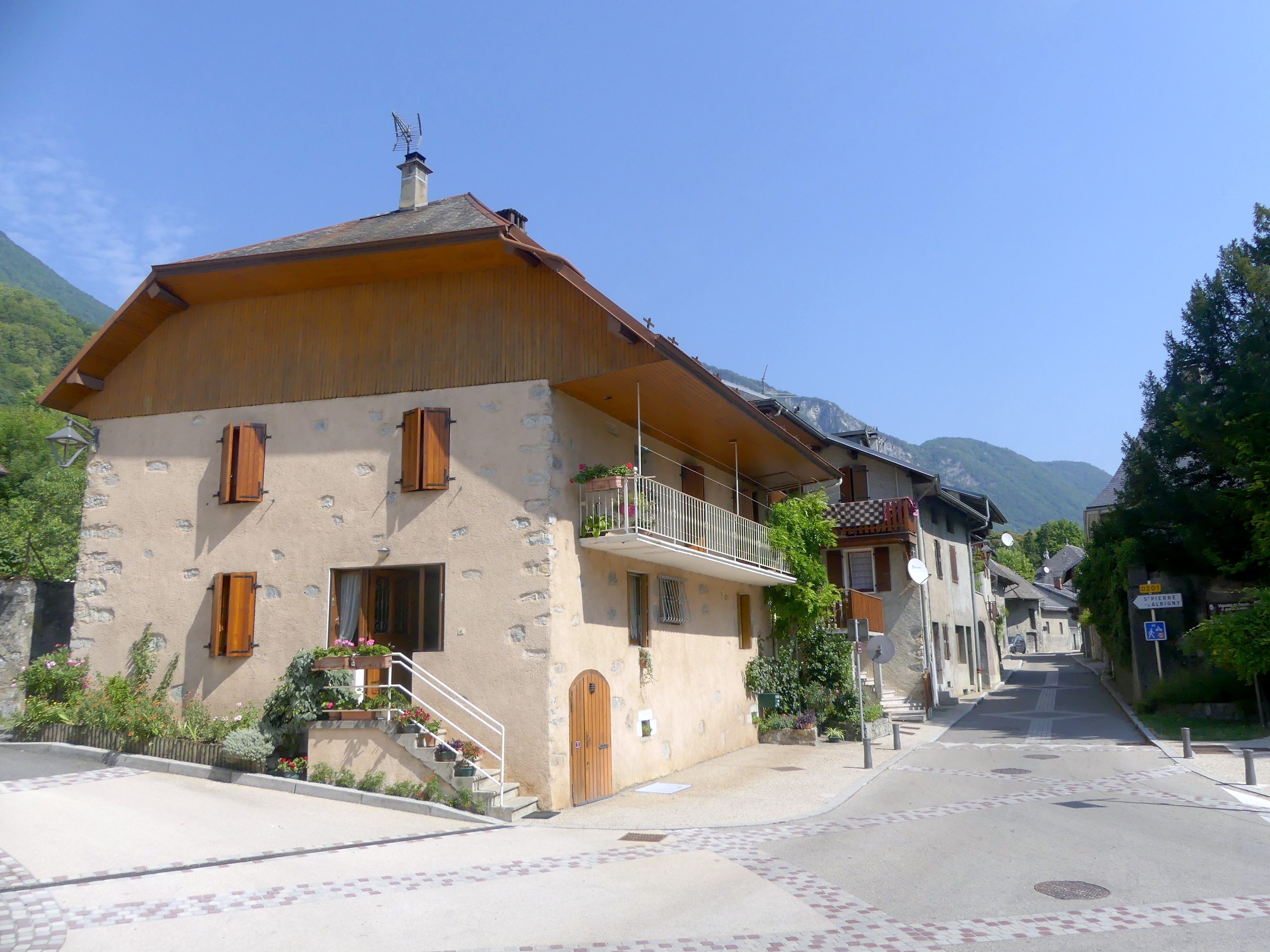 Sight of the main street, also RD 201 secondary road, crossing Saint-Jean-de-la-Porte village, in Savoie, France.